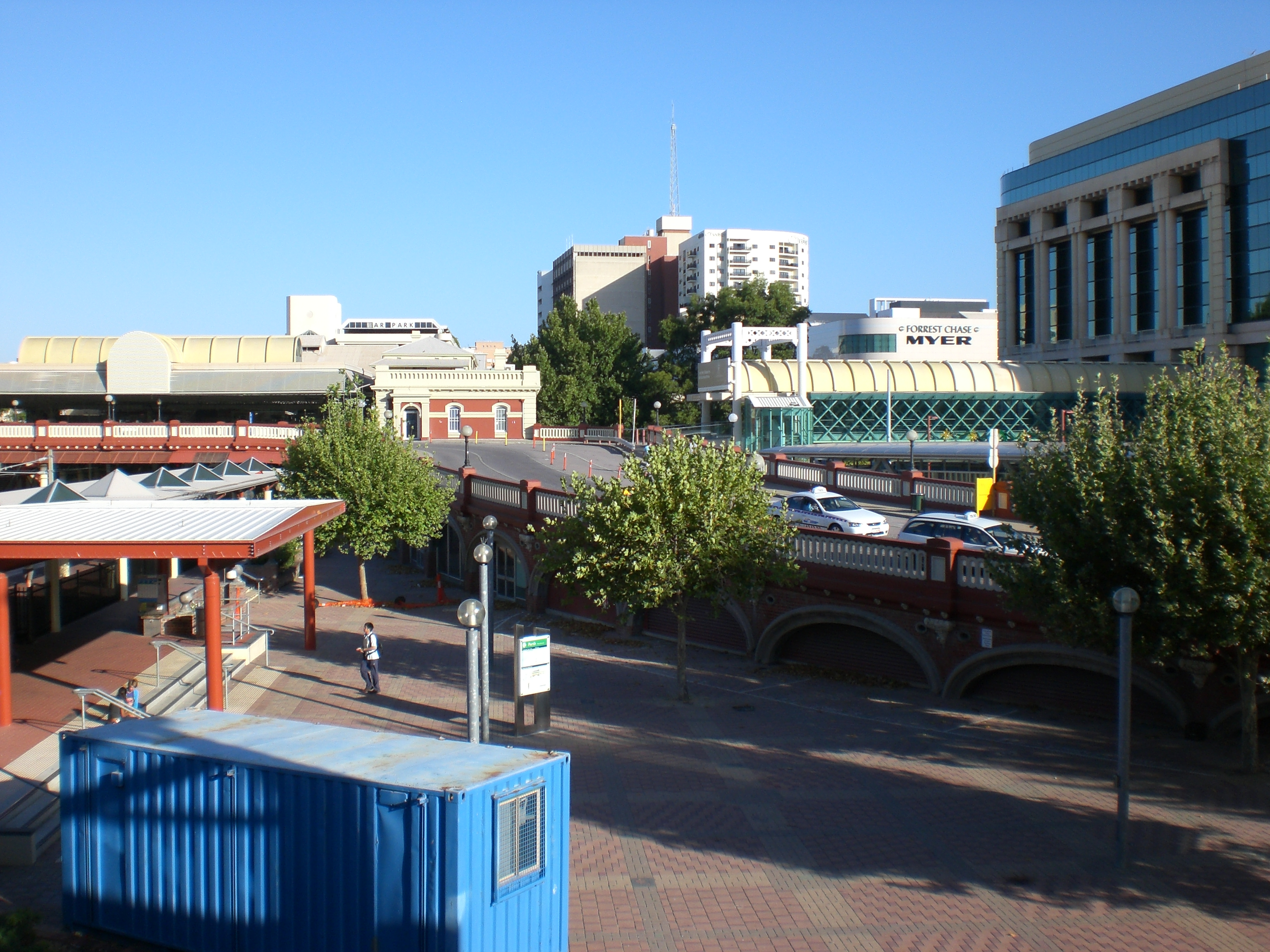 An image from a compact camera of Horseshoe Bridge in Western Australia. The surrounding structures are the Perth railway station on the left and foreground, and Forrest place/Wellington Street on the right.